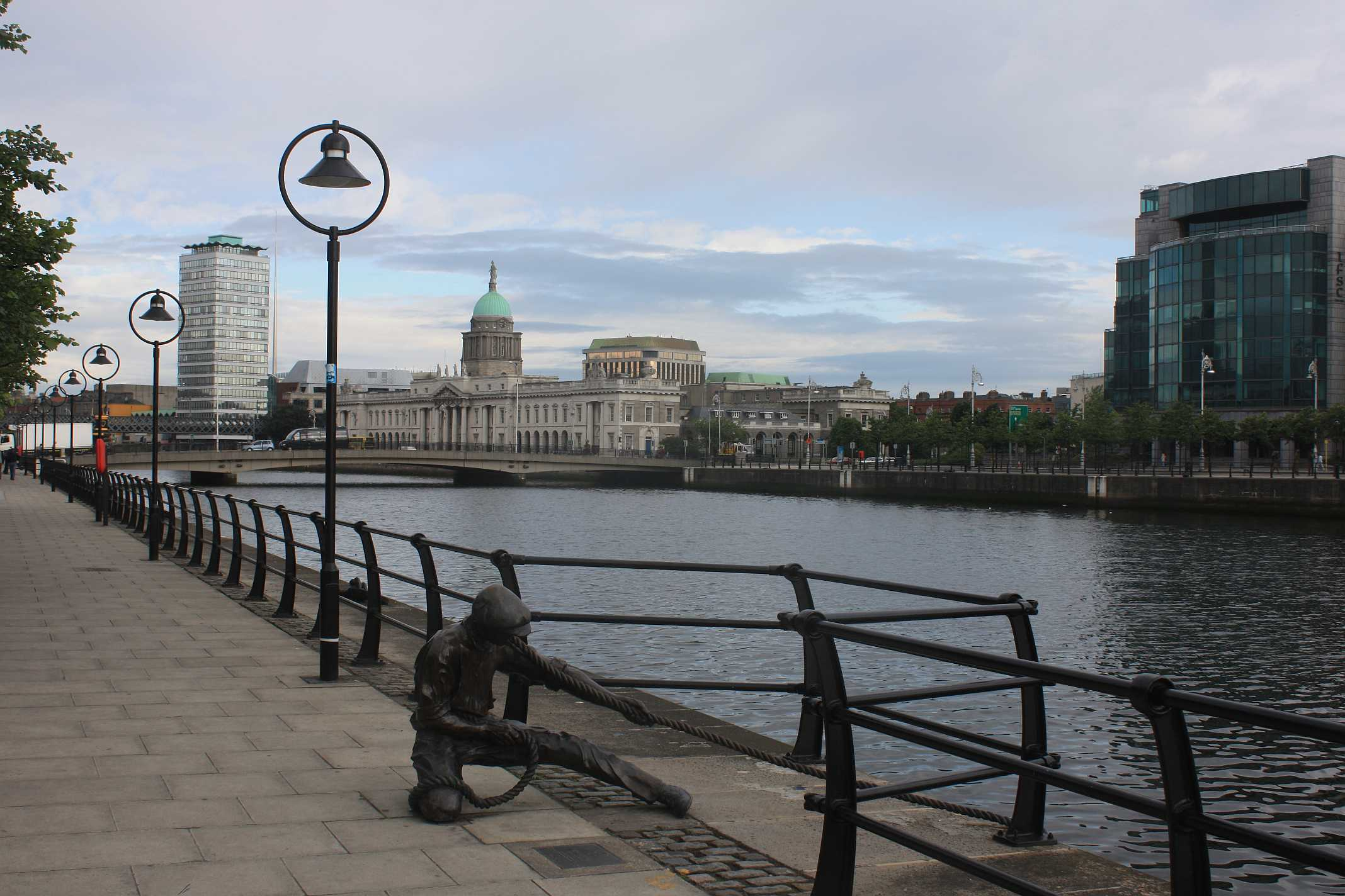 The Linesman statue by Dony MacManus (2000) in Dublin. In the background is the Custom House.